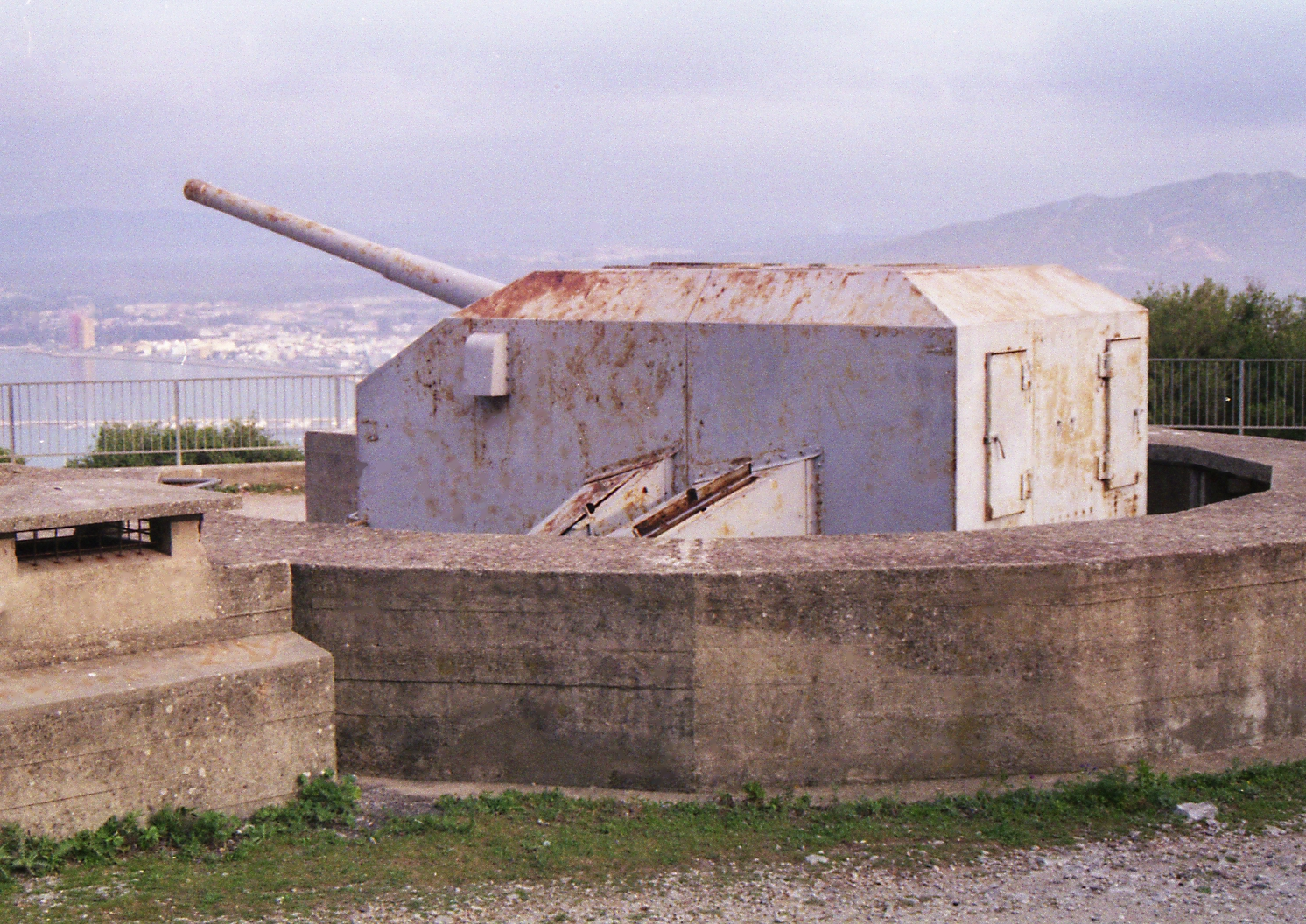 5.25-inch BL CA/AA QF Gun A WW2 army version of an originally naval weapon, a dual purpose coast and AA gun. It was envisaged as an interim medium gun pending the design of a one of 6 inches. In practice the post war installation of these and training shoots proceeded up to the abandonment of coast artillery in 1956. Accordingly this type were actually the last coastal guns installed. The four guns here are believed to be the only remaining ones still in existence. Princess Anne's Battery, Gibraltar.